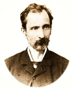 The Italian politician Francesco Crispi (1818-1901) in the mid-nineteenth century.